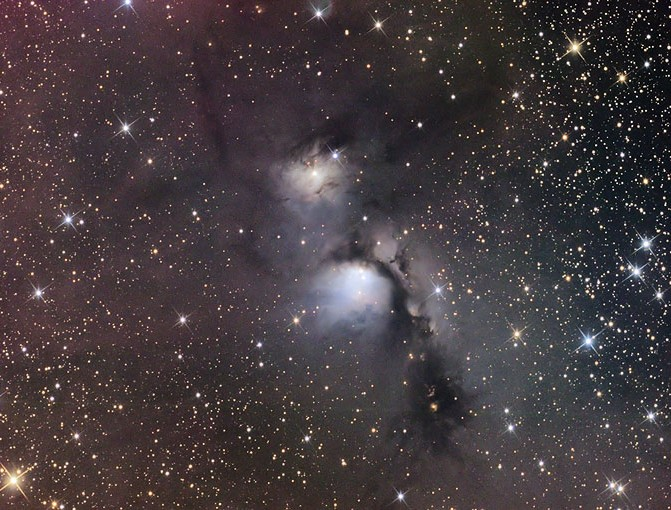 Interstellar dust clouds in constellation of Orion, M78.